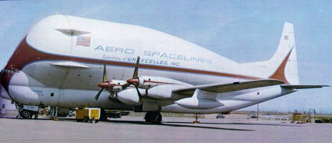 Super Guppy, bigger sister of the aptly named Pregnant Guppy, was the only airplane in the world capable of carrying a complete S-IVB stage. Both aircraft were built by John M. Conroy, who started with the fuselages of two surplus Boeing C-97 Stratocruisers, ballooned out the upper decks enormously, and hinged the front sections so that they could be folded back 110 degrees. Super Guppy flew smoothly at a 250-mph cruising speed, and its cargo deck provided a 25-foot clear diameter.